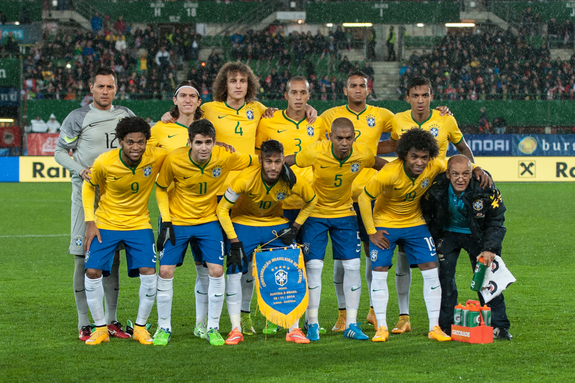 International Friendly Austria - Brazil November 18, 2014